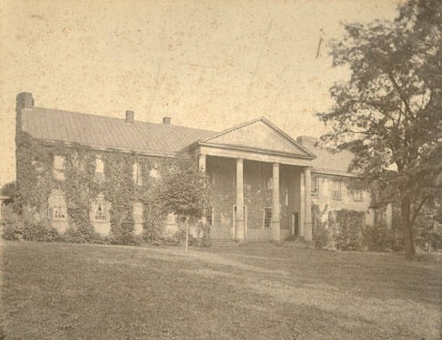 McMillan Hall at Washington & Jefferson College in 1899.